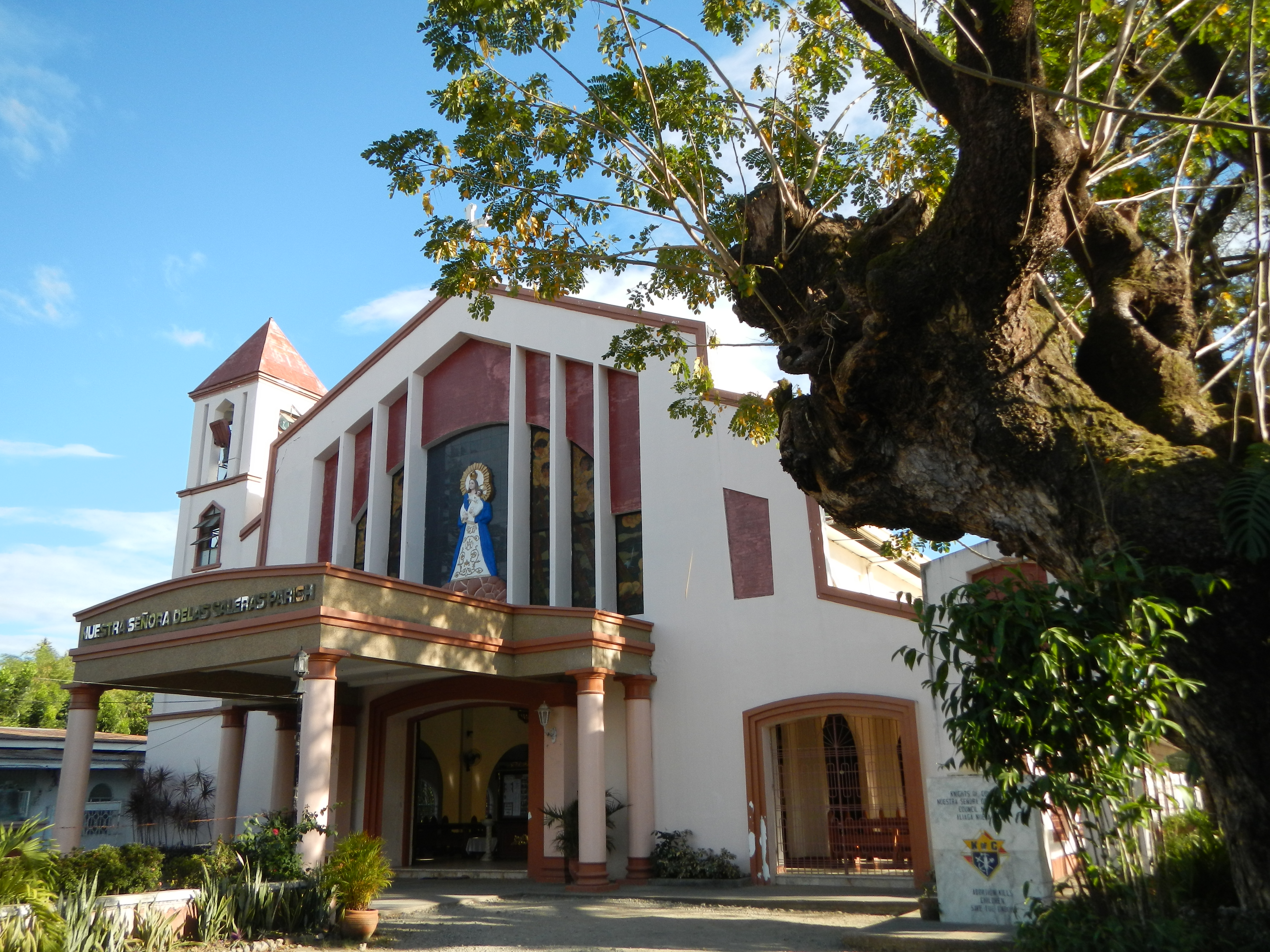 1849 Nuestra Señora de las Saleras Parish Church, "Our Lady of The Vessel of Salt", Gen Luna St. Poblacion Centro , 3111 Aliaga, Nueva Ecija, Parish Priest, Fr. Danilo C. Cipriano, Titular: Nuestra Señora de las Saleras, April 26[1][2] [3]Aliaga, Nueva Ecija[4][5][6]